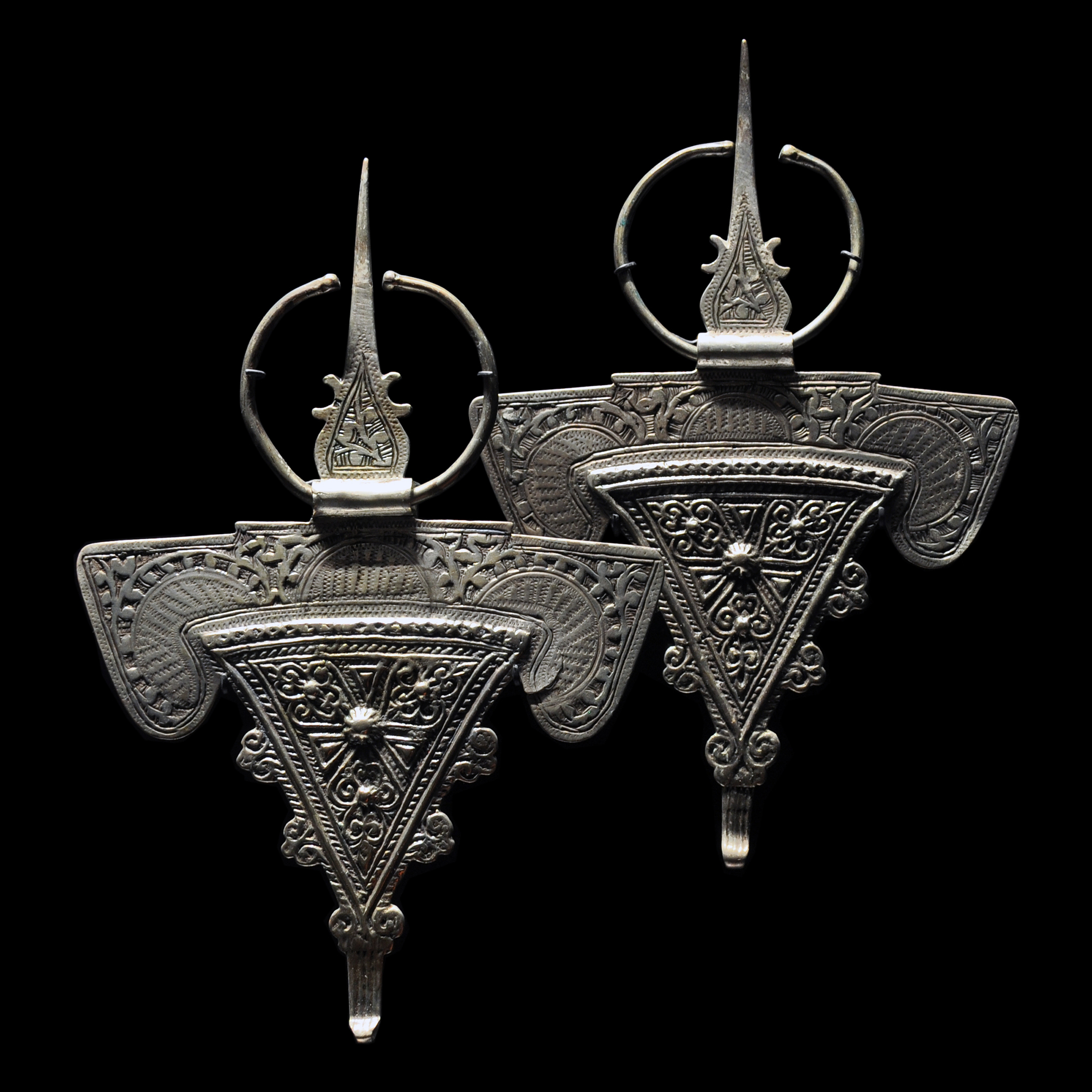 Berber fibules, silver. Musée du Quai Branly, Paris, France.